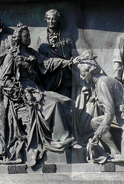 Grigory Potyomkin on the Monument «Millennium of Russia» in Veliky Novgorod